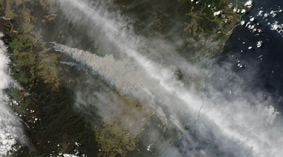 A view of the 2013 NSW Bushfires (specifically the State Mine, Mount Victoria and Linksview Road Fires) from the NASA Aqua Satellite using MOIDS Imagery. Captured on October 17, 2013.